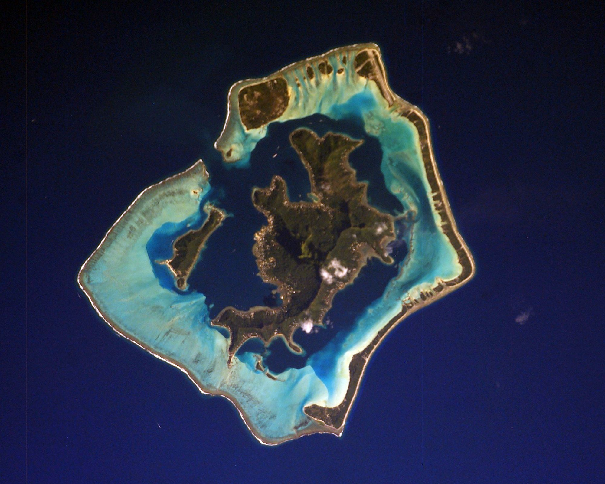 NASA astronaut image of Bora Bora, Gesellschaftsinseln, French Polynesia